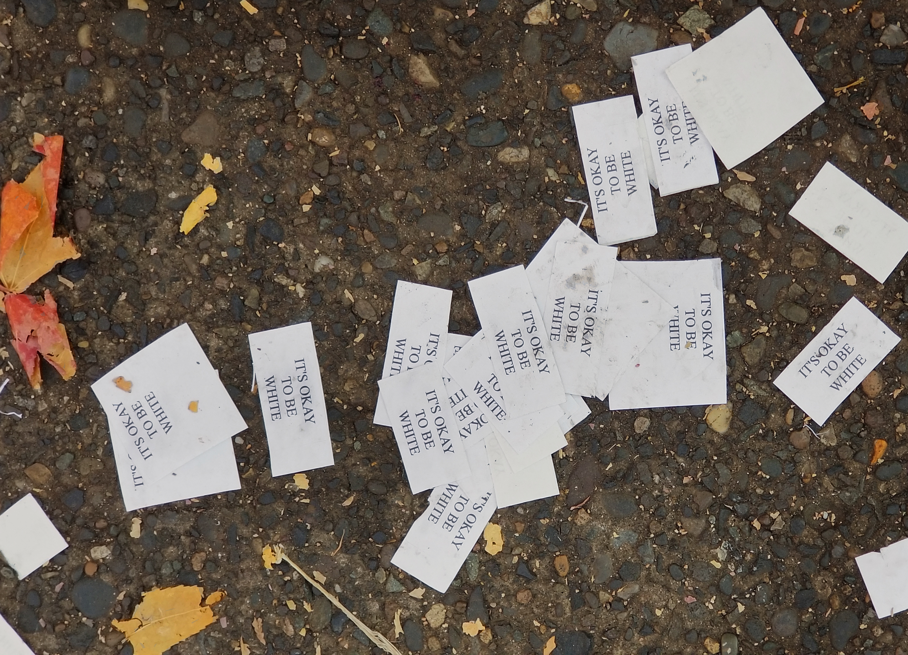 Trash left behind by the Patriot Prayer group.